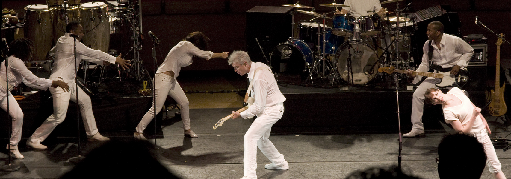 David Byrne Live in Milano, 2009